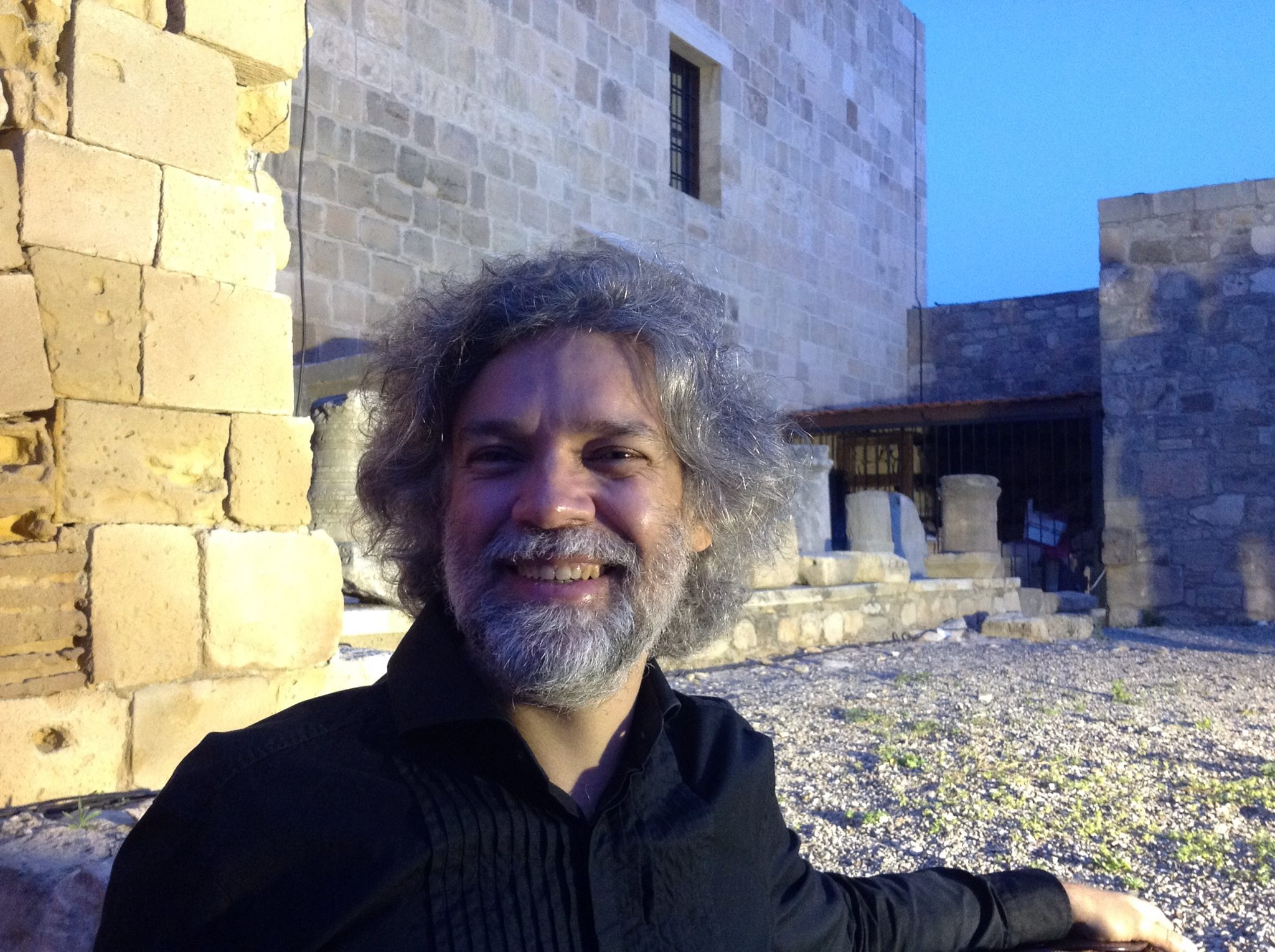 Francois Frederic Guy at International Pharos Chamber Music Festival May 2014 Royal Manor House, Kouklia, Cyprus